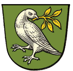 Coat of arms of Gückingen